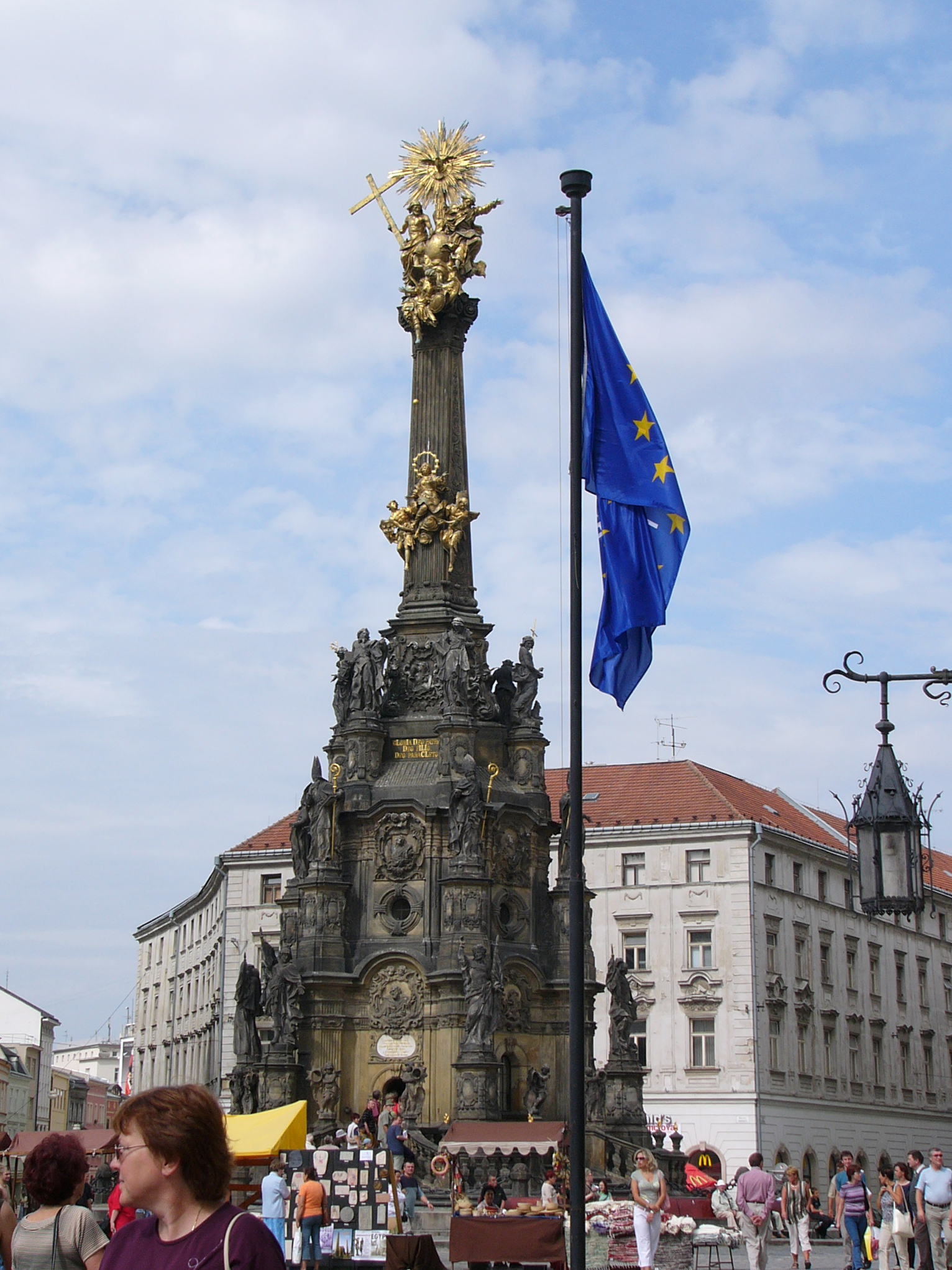 Holy Trinity Column in Olomouc (Czech Republic) with flag of European Heritage Days (EHD).